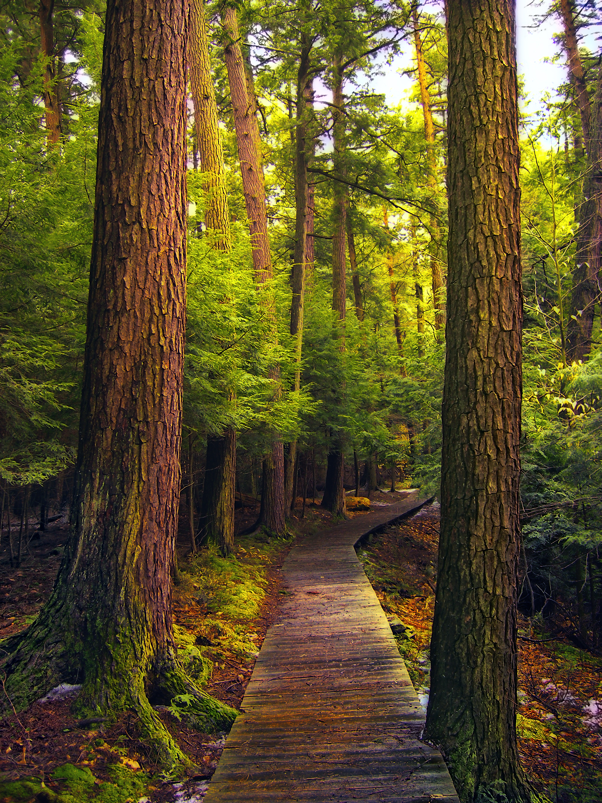 Eastern Hemlock grove, Salt Springs State Park, Susquehanna County. Slippery from on-and-off wet snow, the boardwalk trail here skirts a ravine containing this and several other waterfalls.Mossy